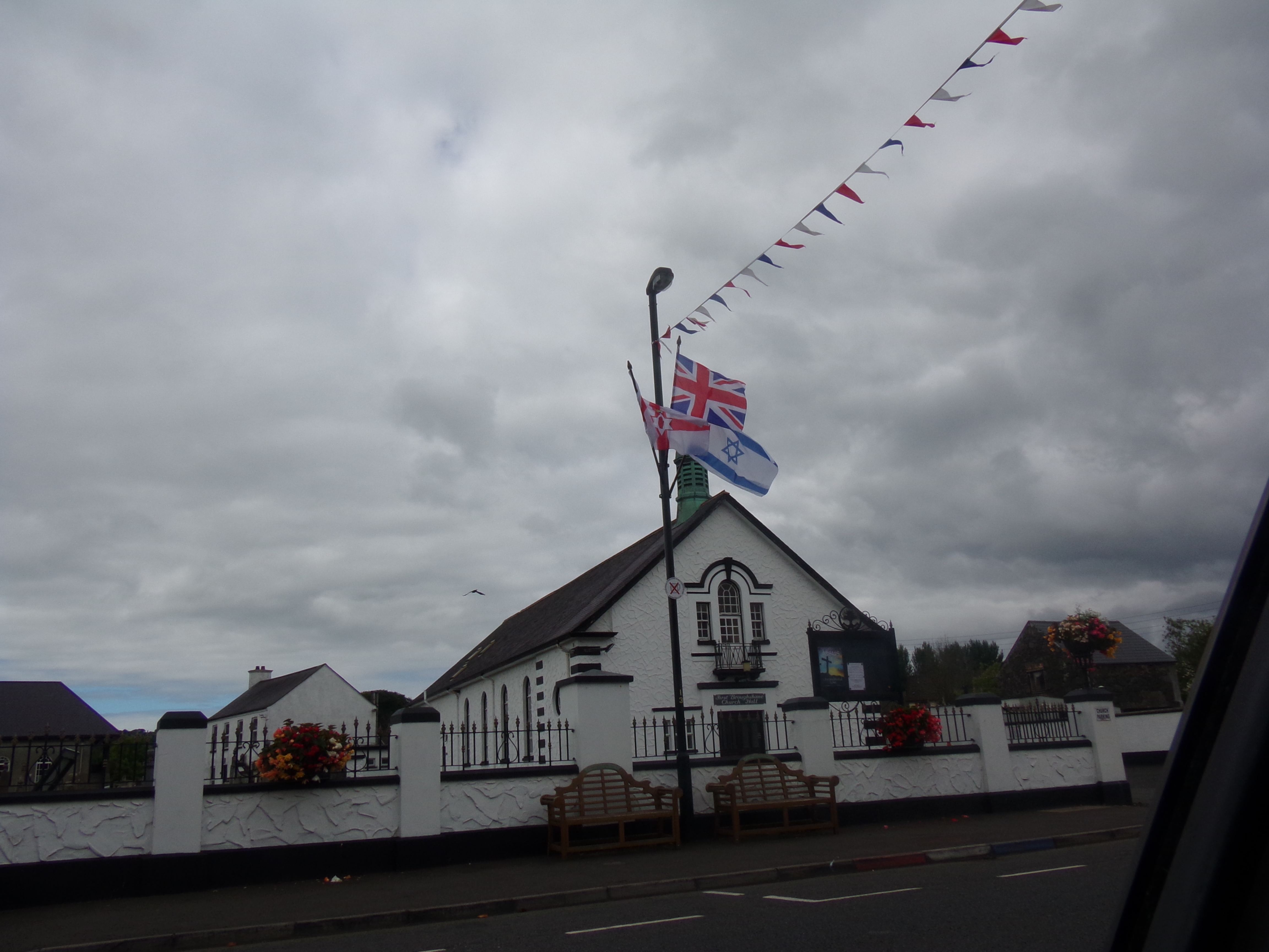 The Israel flag alongside the Union and Ulster flags in Broughshane.The Israeli flag is flown by loyalists occasionally.